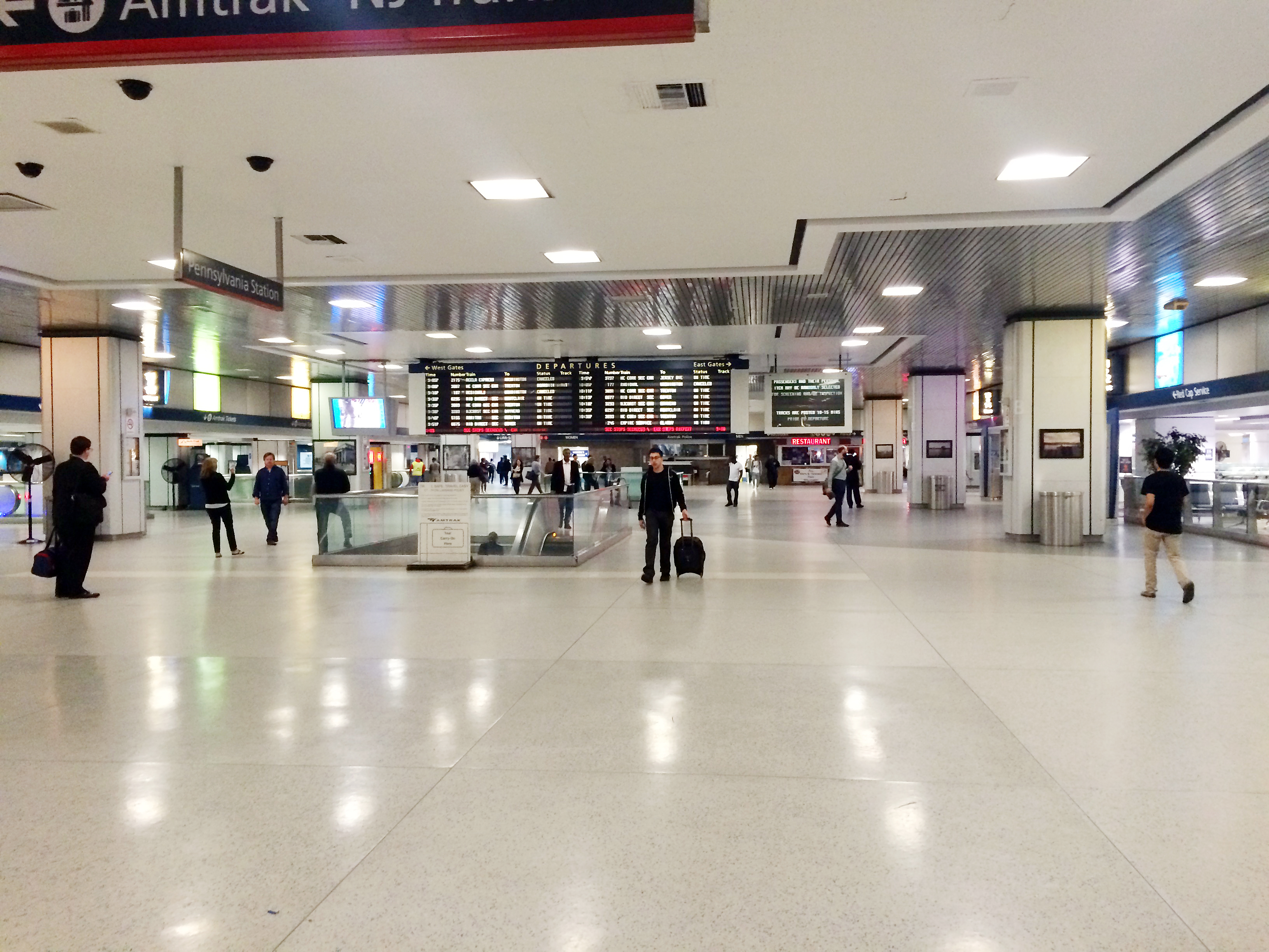 The Amtrak concourse of Penn Station empty as trains were canceled following the North Philadelphia derailment